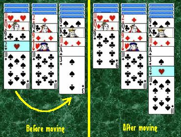 This is a simulated diagram of how to more cards in the solitaire game of Yukon. The diagram is made using Microsoft Paint; the playing cards used are the SVG playing cards.